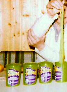 Slime, toy from Mattel